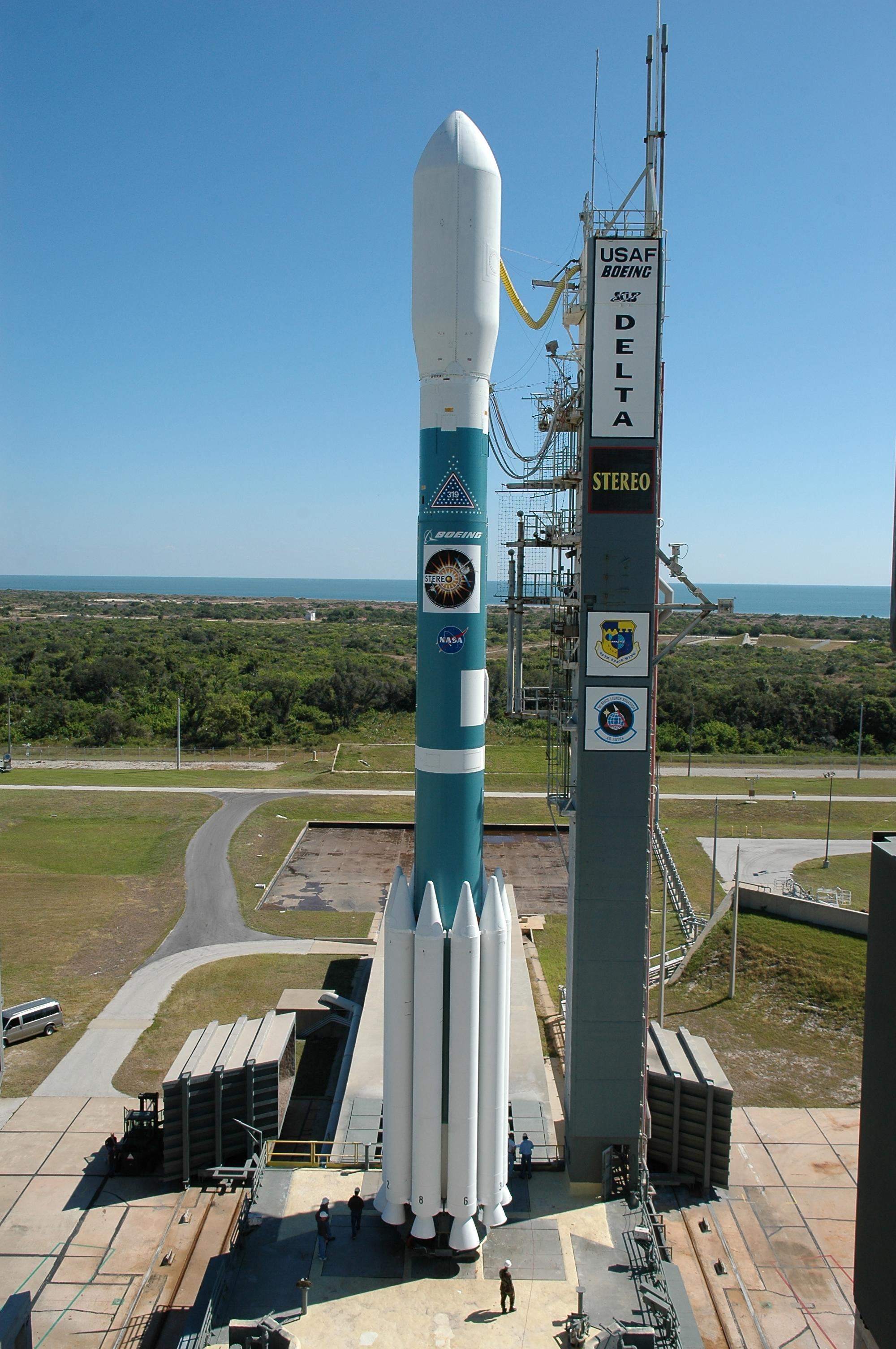 KENNEDY SPACE CENTER, FLA. – After the mobile service tower has rolled away, the Delta II rocket with the STEREO spacecraft at top stands alone next to the launch gantry. Liftoff is scheduled in a window between 8:38 and 8:53 p.m. on Oct. 25. STEREO (Solar Terrestrial Relations Observatory) is a two-year mission using two nearly identical observatories, one ahead of Earth in its orbit and the other trailing behind. The duo will provide 3-D measurements of the sun and its flow of energy, enabling scientists to study the nature of coronal mass ejections and why they happen. The ejections are a major source of the magnetic disruptions on Earth and are a key component of space weather. The disruptions can greatly effect satellite operations, communications, power systems, humans in space and global climate. Designed and built by the Johns Hopkins University Applied Physics Laboratory (APL) , the STEREO mission is being managed by NASA Goddard Space Flight Center. APL will maintain command and control of the observatories throughout the mission, while NASA tracks and receives the data, determines the orbit of the satellites, and coordinates the science results.